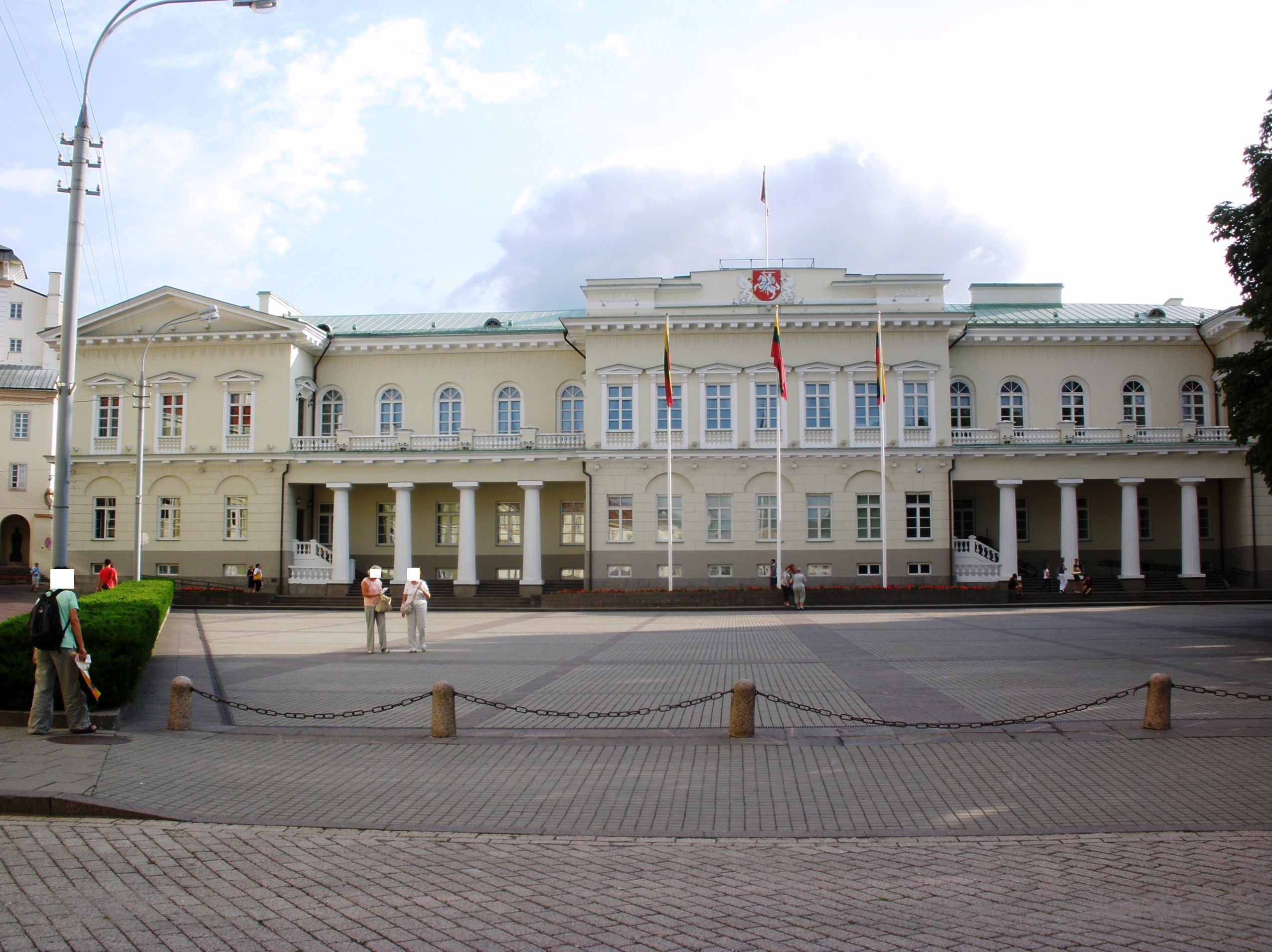 Presidential palace in Vilnius, Lithuania